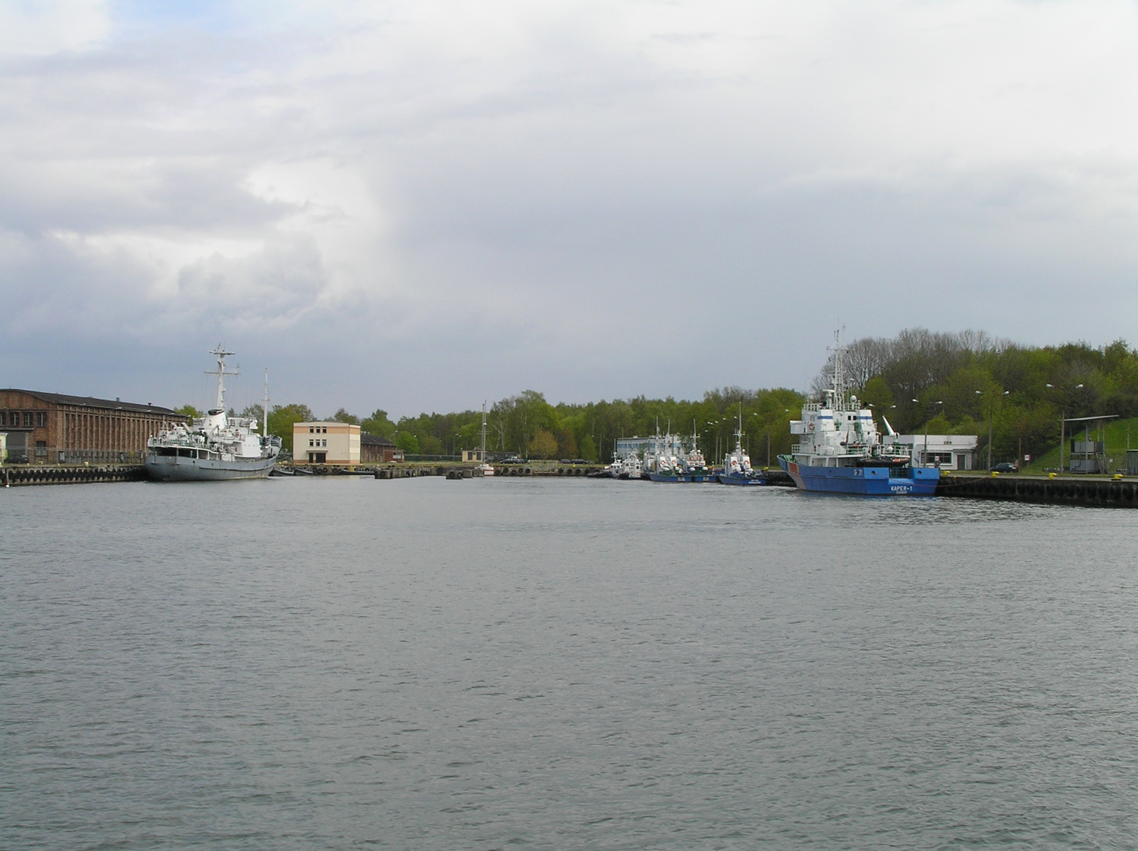 Munitions harbour in the Port of Gdańsk